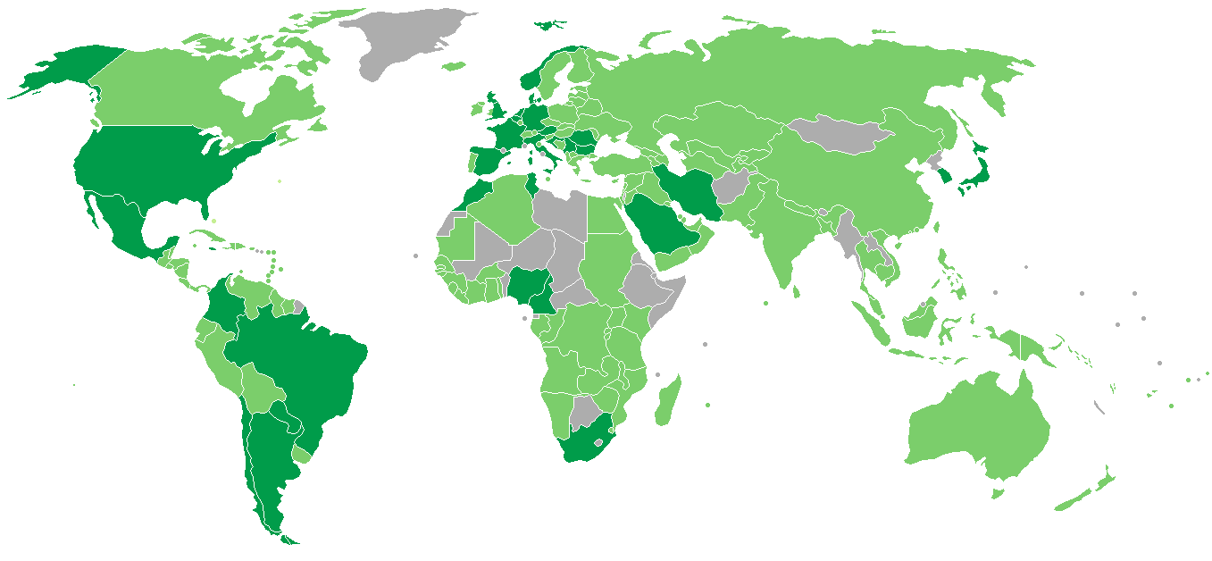 Qualification for the 1998 FIFA World Cup Country didn't participate Country withdrawed or entry didn't accepted by FIFA Country participated in the qualification tournament Country qualified to the finals